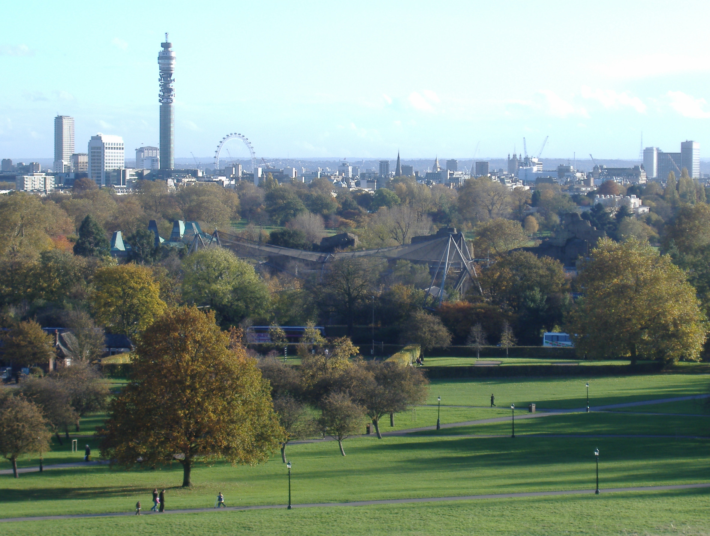 View from the top of Primrose Hill. A pretty clear day, so the BT Tower and the London Eye are clearly visible, as well as the aviary at London Zoo.